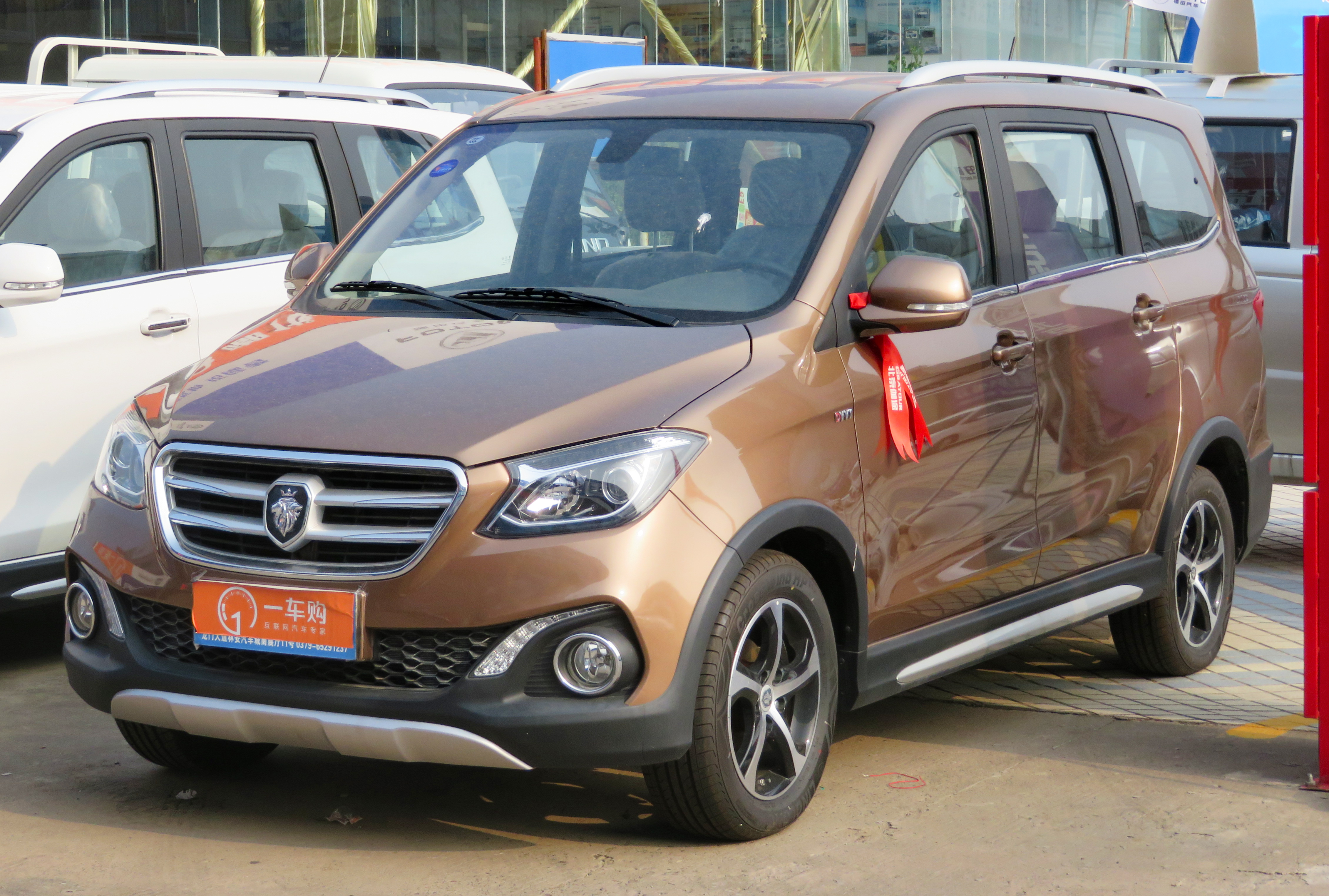 A 2018 Beiqi-Foton Gratour (伽途) ix7 photographed at a dealership in Luoyang, Henan province, China